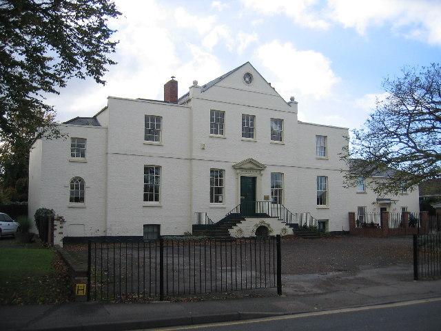 Hucclecote Court. Once a country house, this building right on the eastern edge of the square is now home to a firm of solicitors.